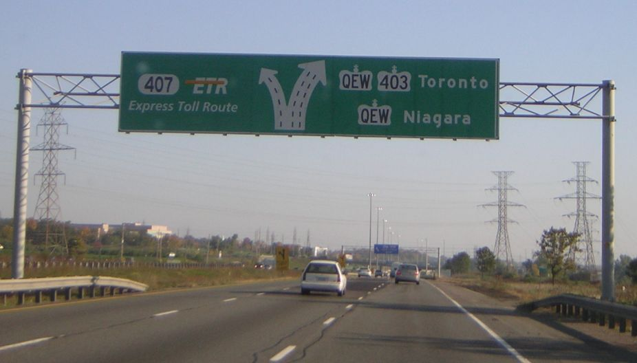 Overhead guide sign on Highway 403 East, announcing exits to 407 ETR and QEW; Burlington, Ontario, Canada.